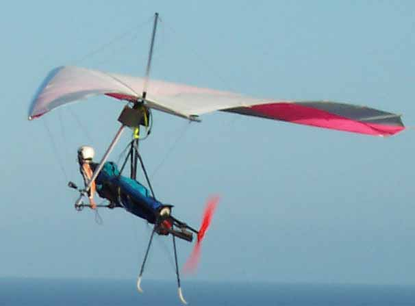 This is my (Chris Drake) photograph, of me. It is not copyright. I hereby release it into the public domain.